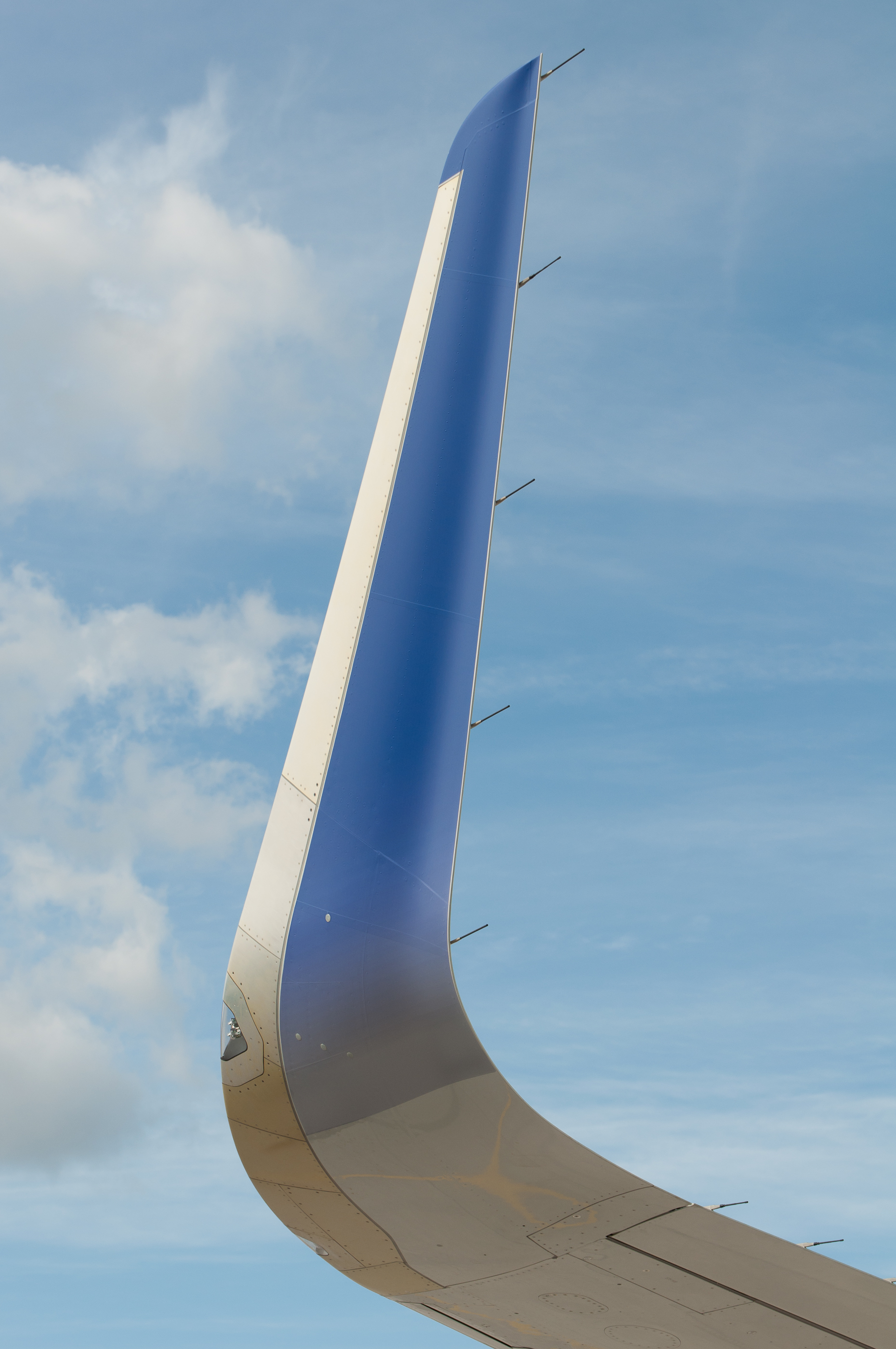 A320 Enhanced (A320E) prototype (F-WWIQ): Sharklet detail at ILA Berlin Air Show 2012.